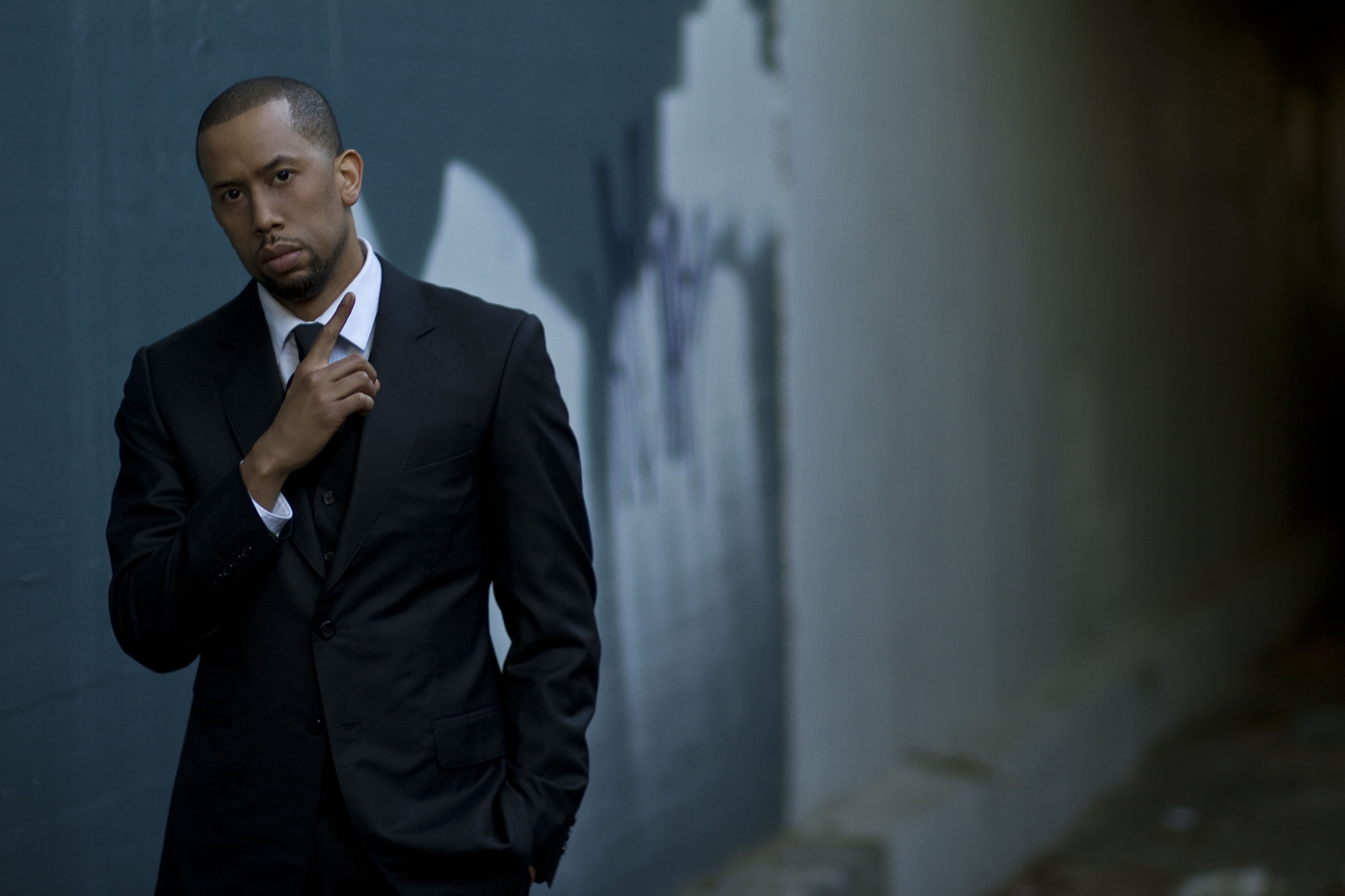 Pic from the premiere of SoulMen the movie